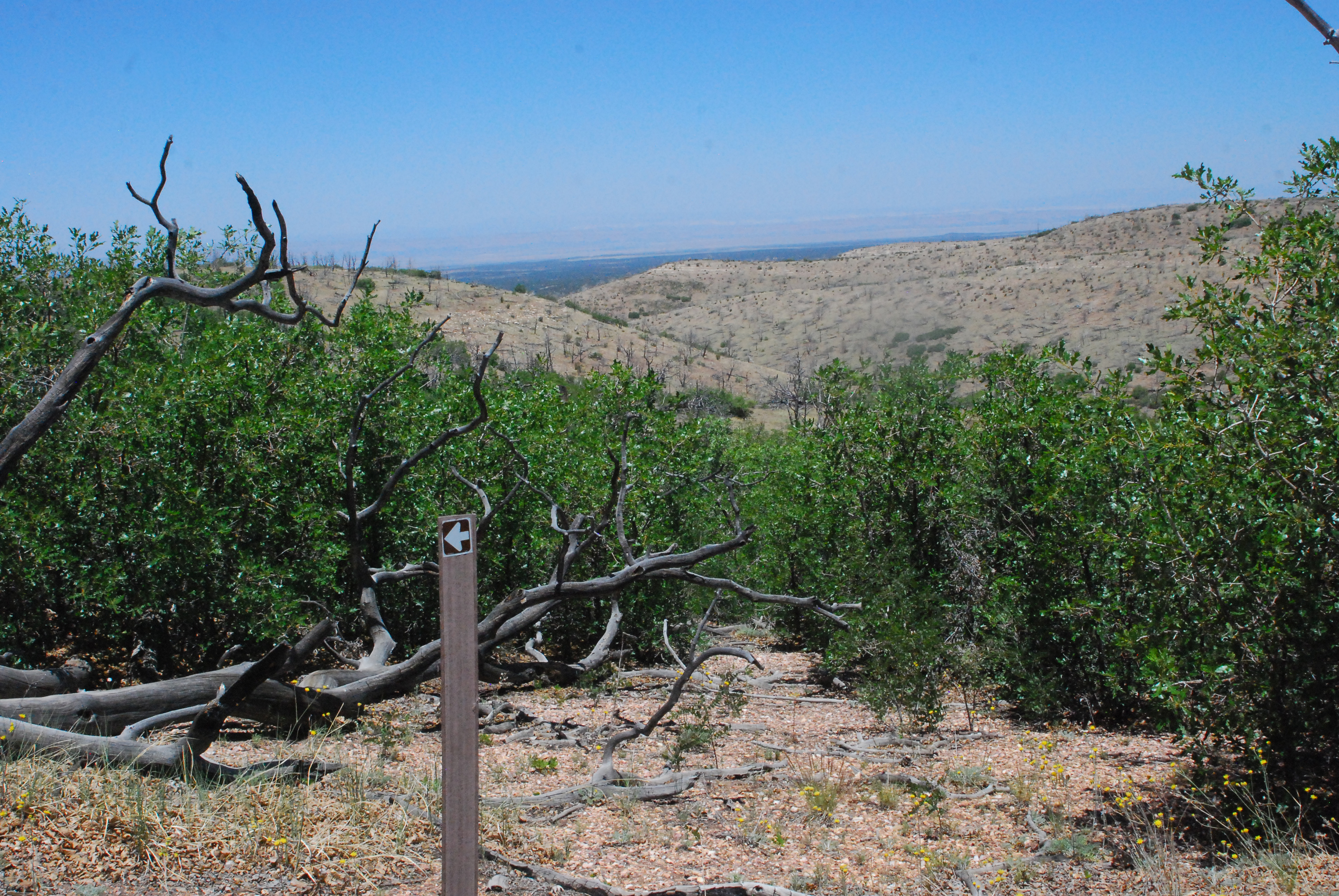 This photograph shows a sample waymark that line the trail to Brow Monument.